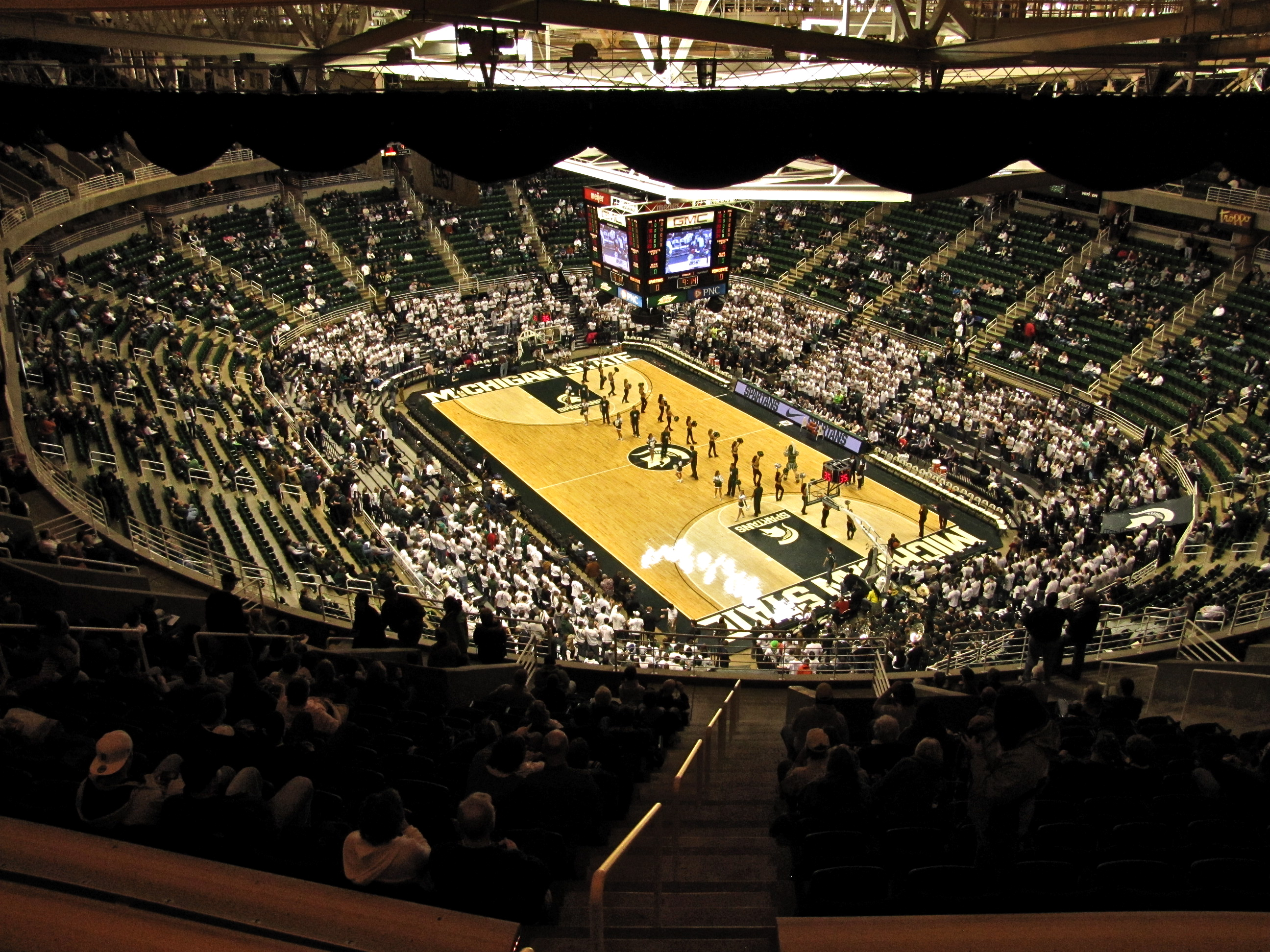 Breslin Center Upper View